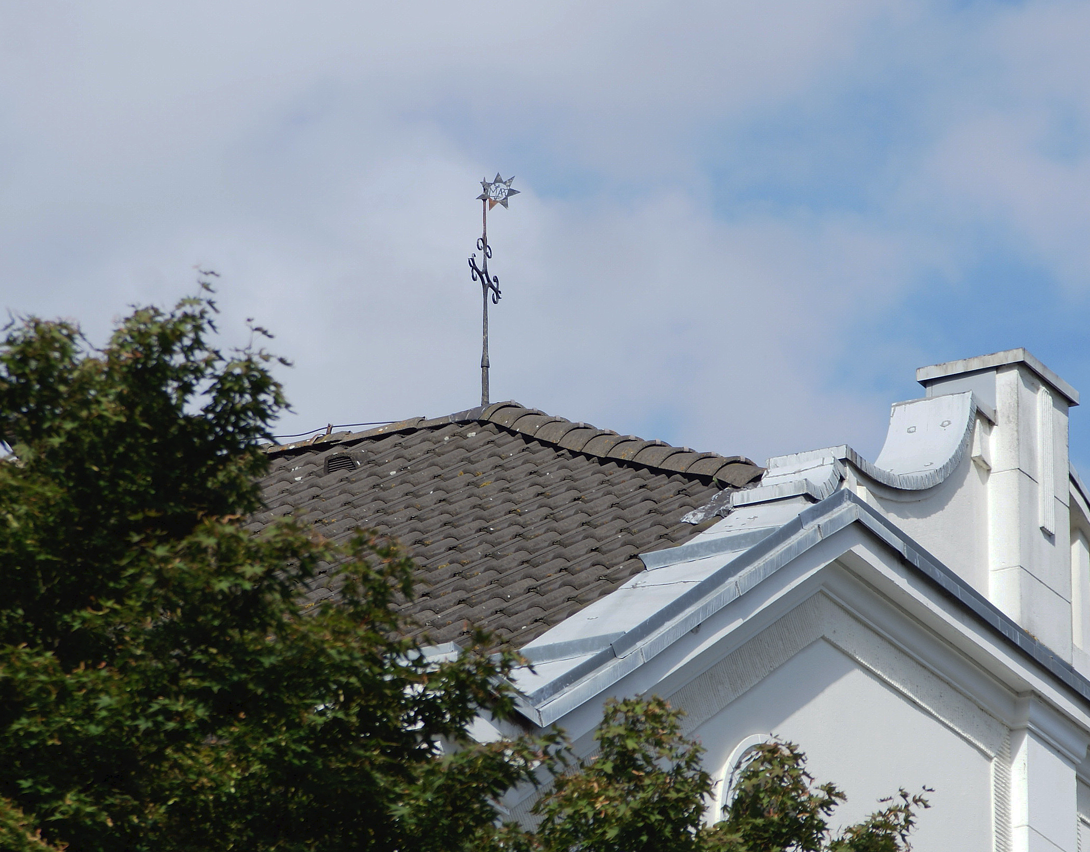 The cross and the star on the house in Sternstraße 7 in Essig are original. They date from the time of the monastery Maria Stern.